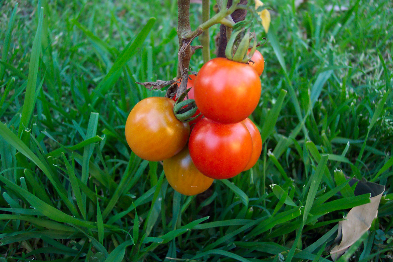 Tomato plant with grass backdrop Taken by Enoch Lau on 15 August 2003. As a courtesy, please let me know if you alter this image or this image description page. Original filename was 100_1135.JPG.